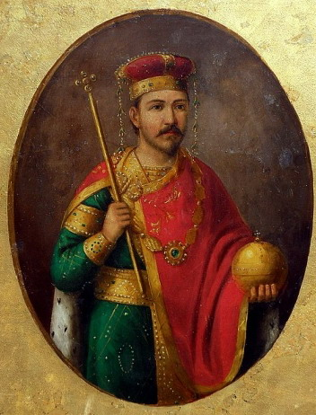 Portrait of tsar Ivan Assen II from G. Danchoff.